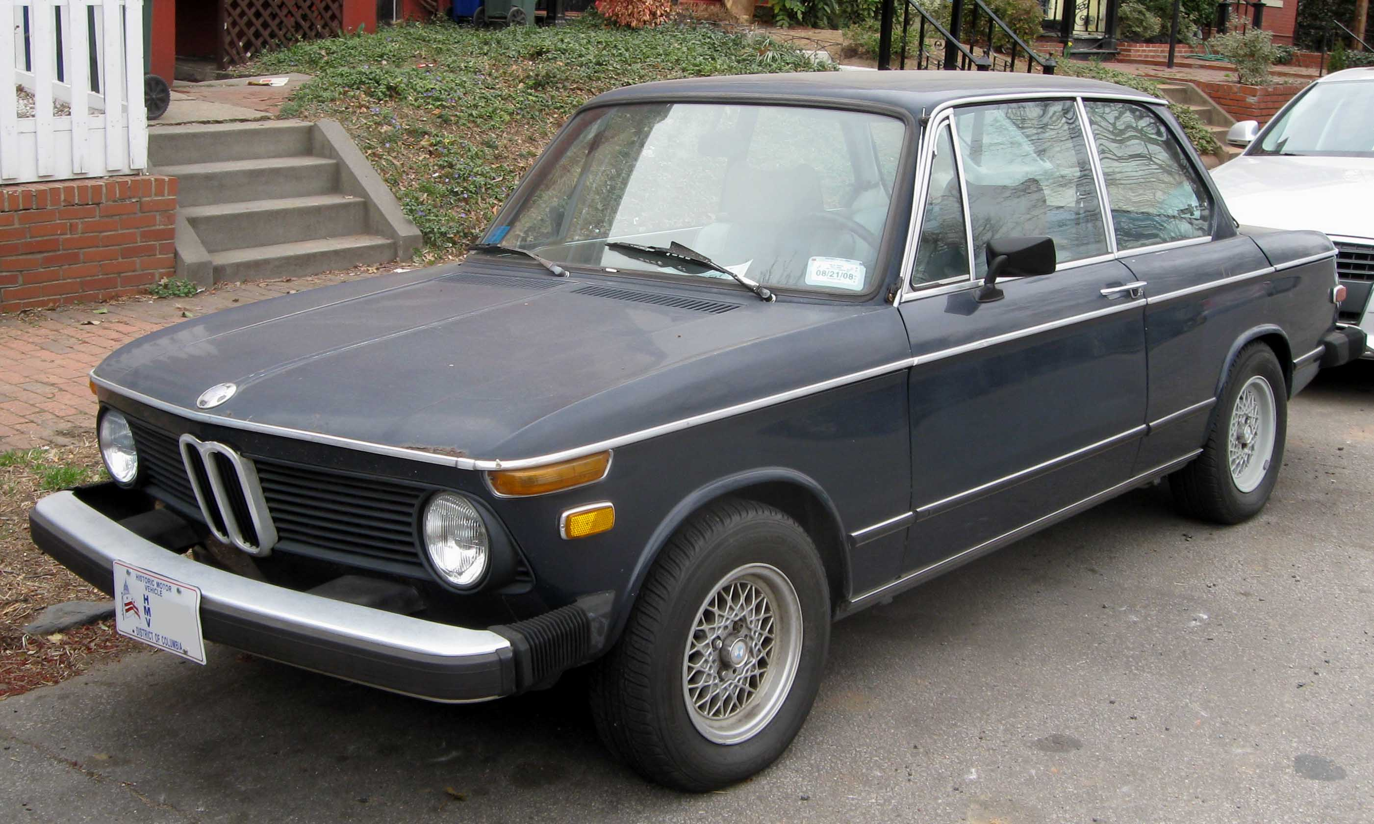 1974-1976 BMW 2002 photographed in Washington, D.C., USA.